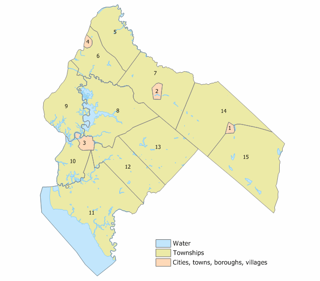 Salem County, New Jersey Municipalities. See also lineage of index maps.